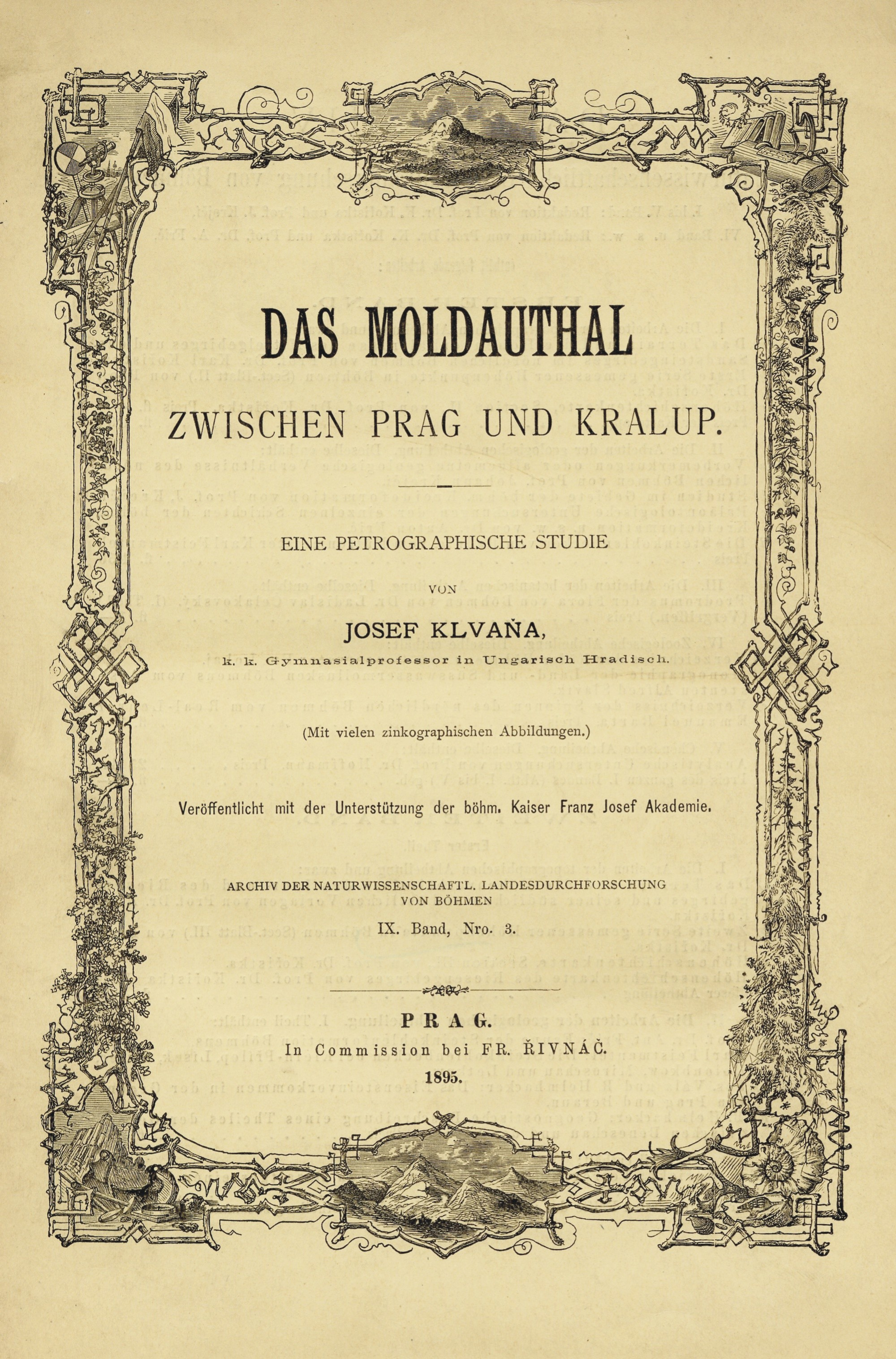 book title Archiv für die naturwissenschaftliche Landesdurchforschung von Böhmen Vol. IX. Nr. 3 (Prag 1895)